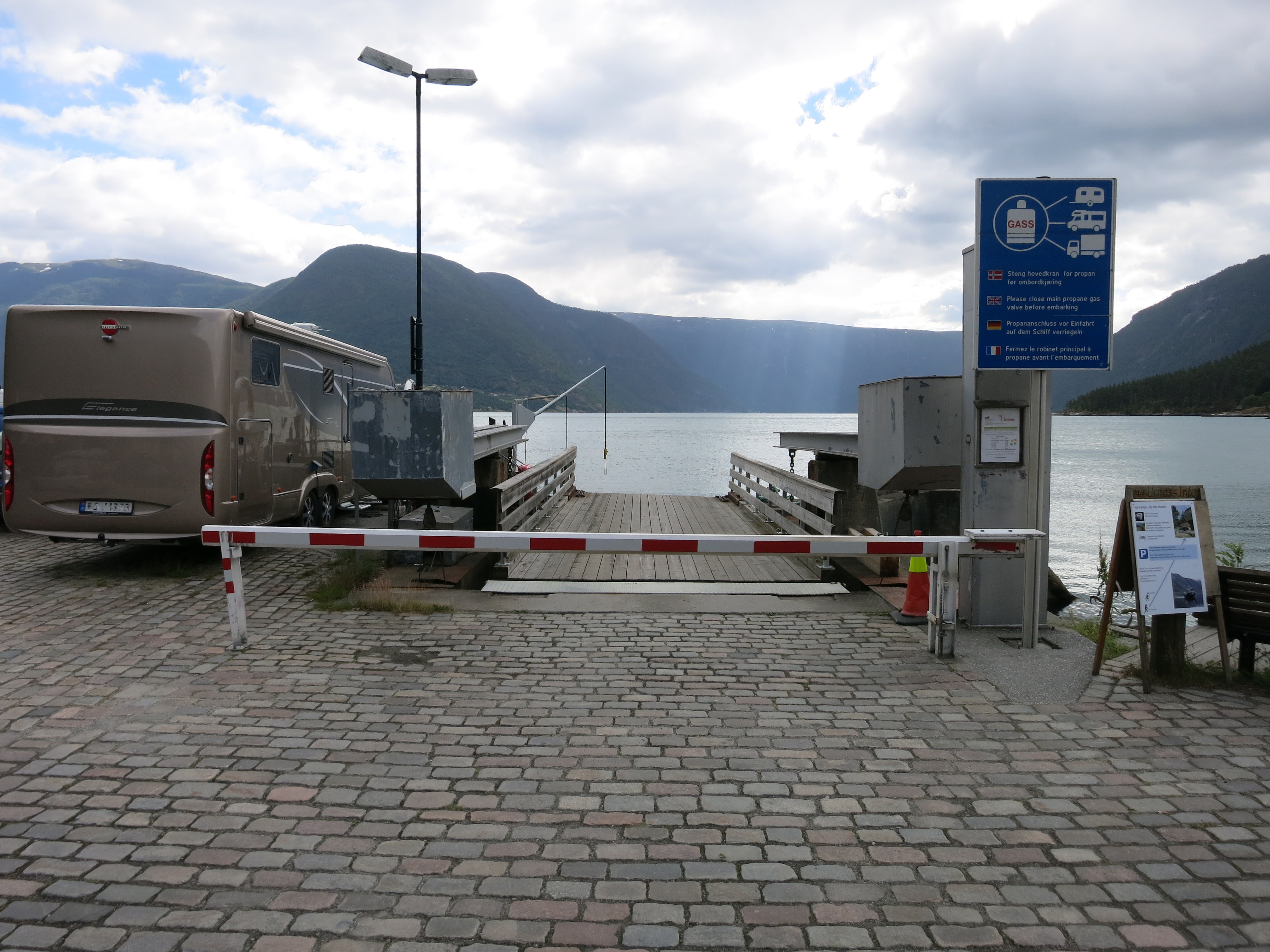 Solvorn ferry terminal